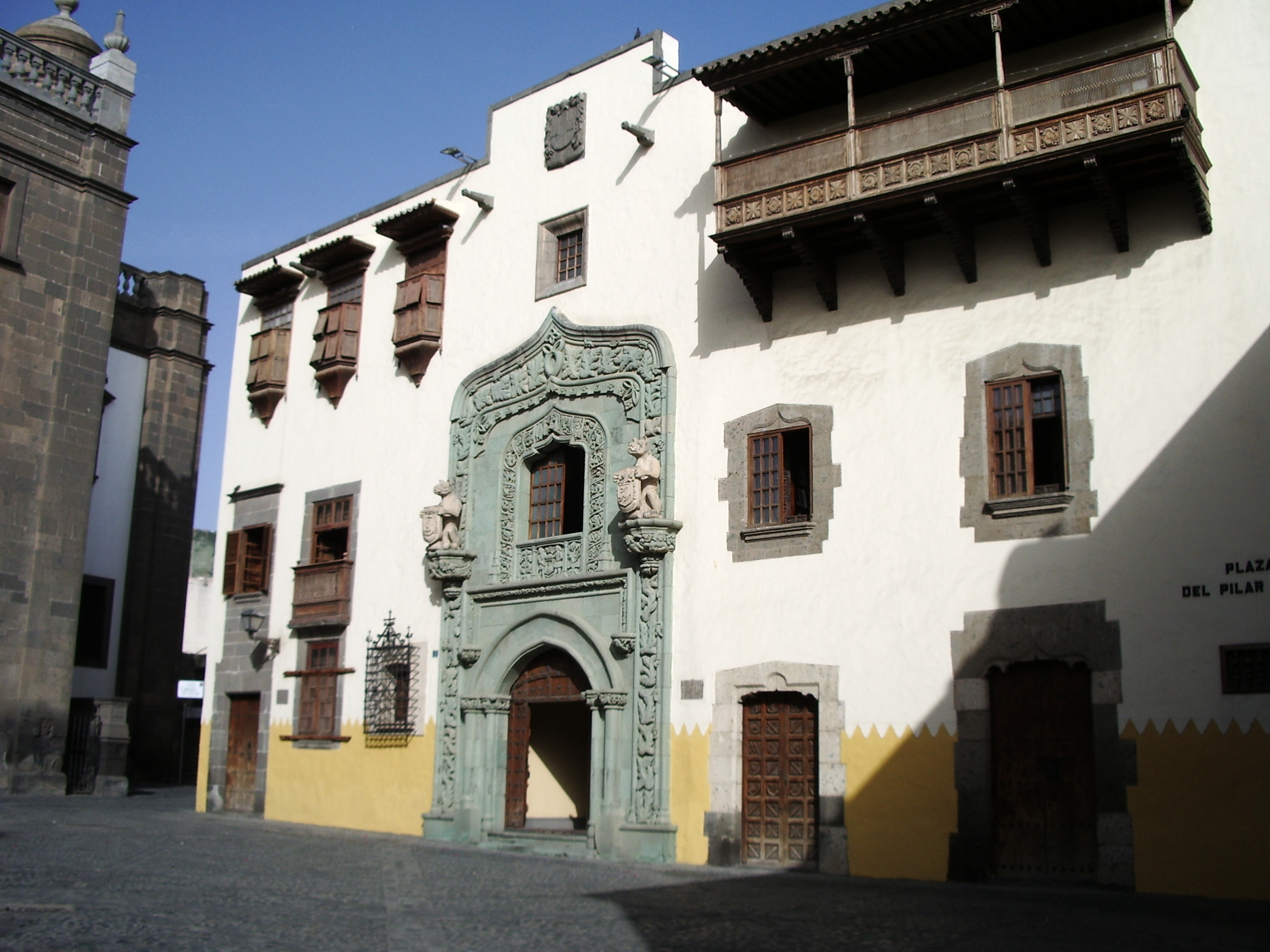 Christopher Columbus House. Las Palmas de Gran Canaria (Gran Canaria) Islas Canarias, España.